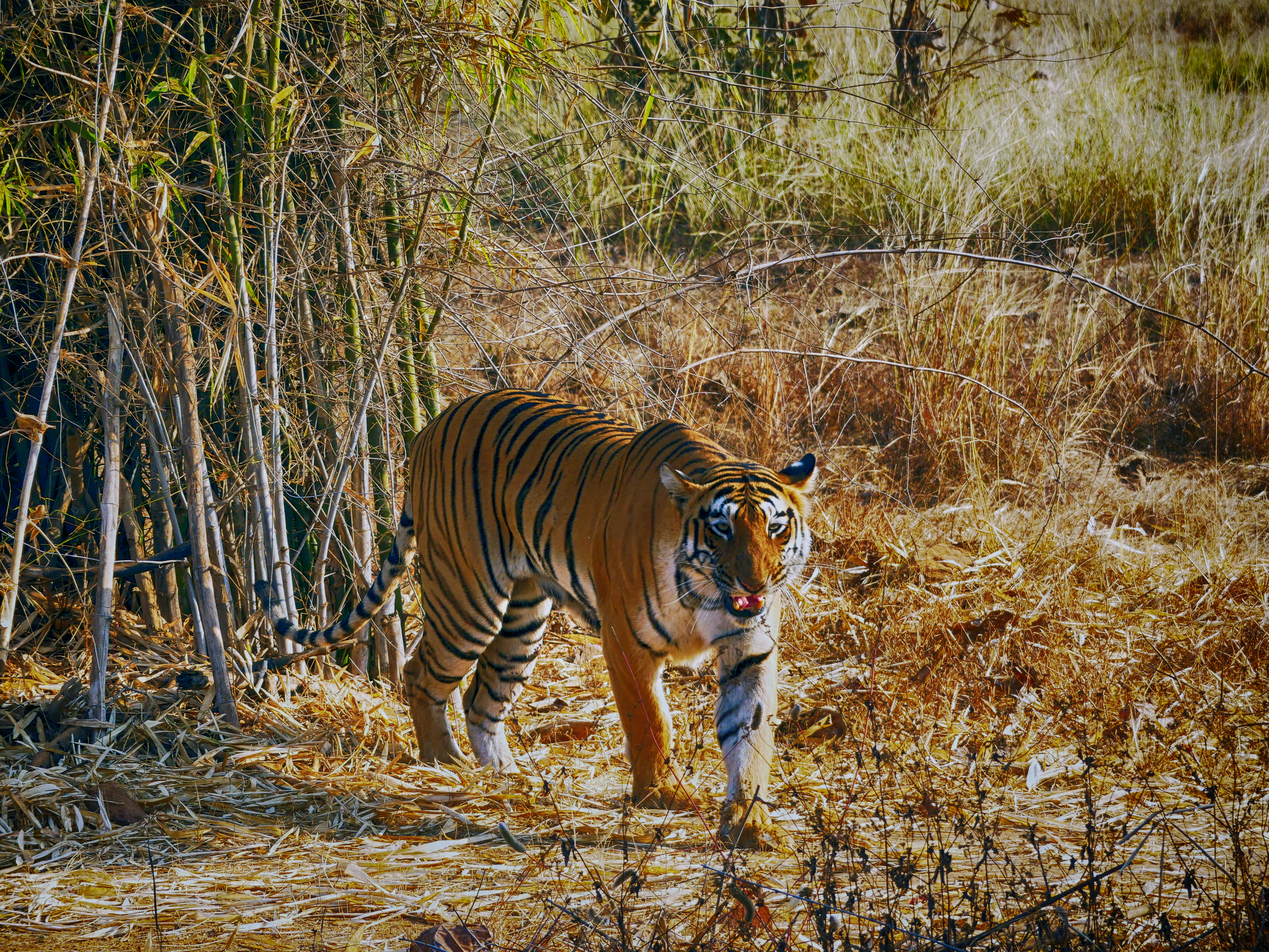 Tara in Tadoba Tiger Reserve